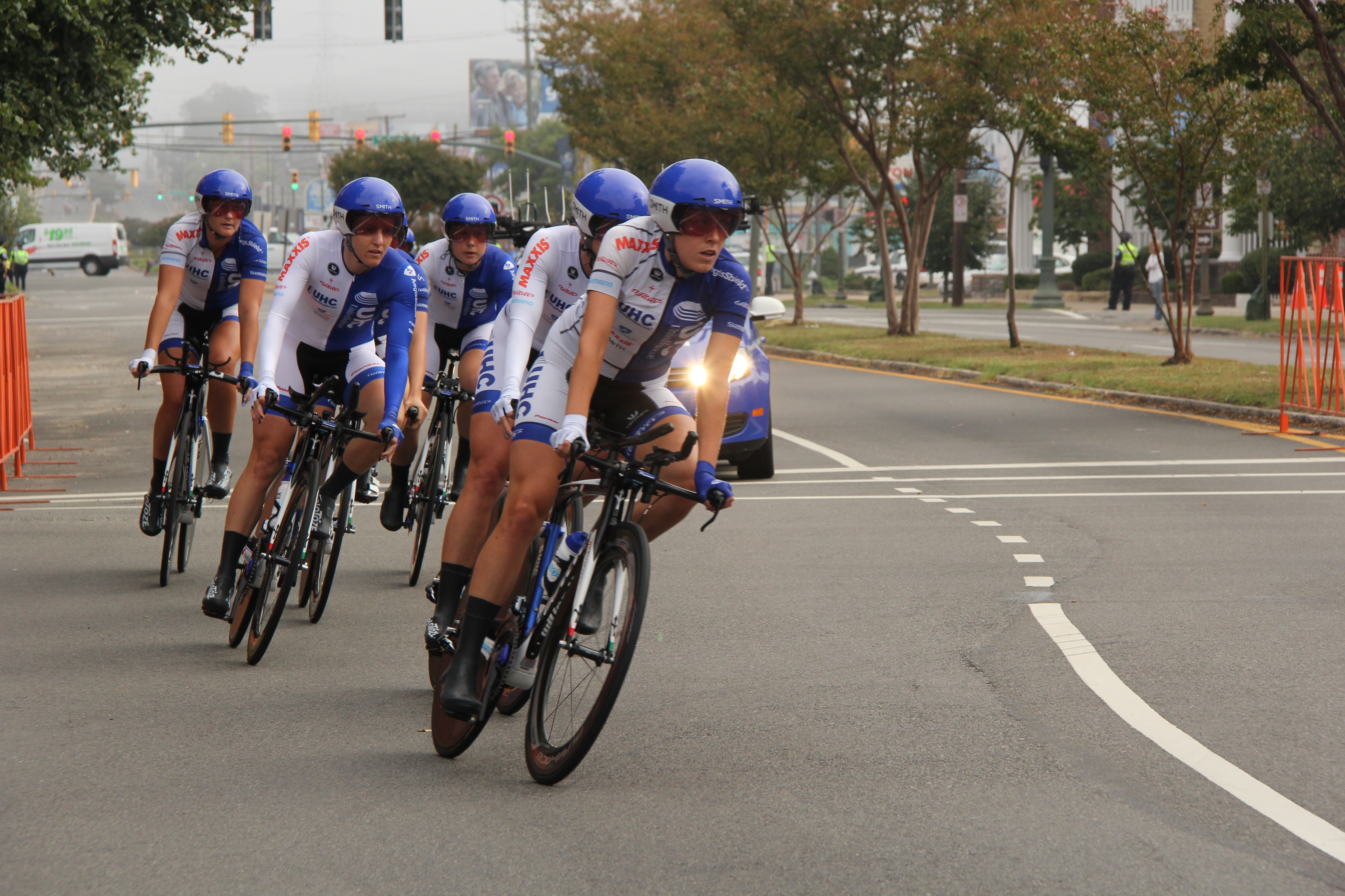 The world has come to Richmond. Welcome! Bienvenidos! Willkommen! 2015 UCI Road World Championships, in Richmond, United States